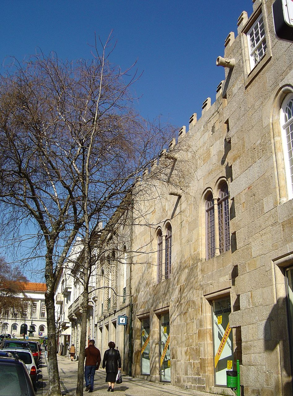 See where this picture was taken. [?]